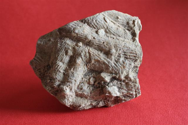 Cruziana fossil trace from Villarrubia de los Ojos, Ciudad Real, Spain.